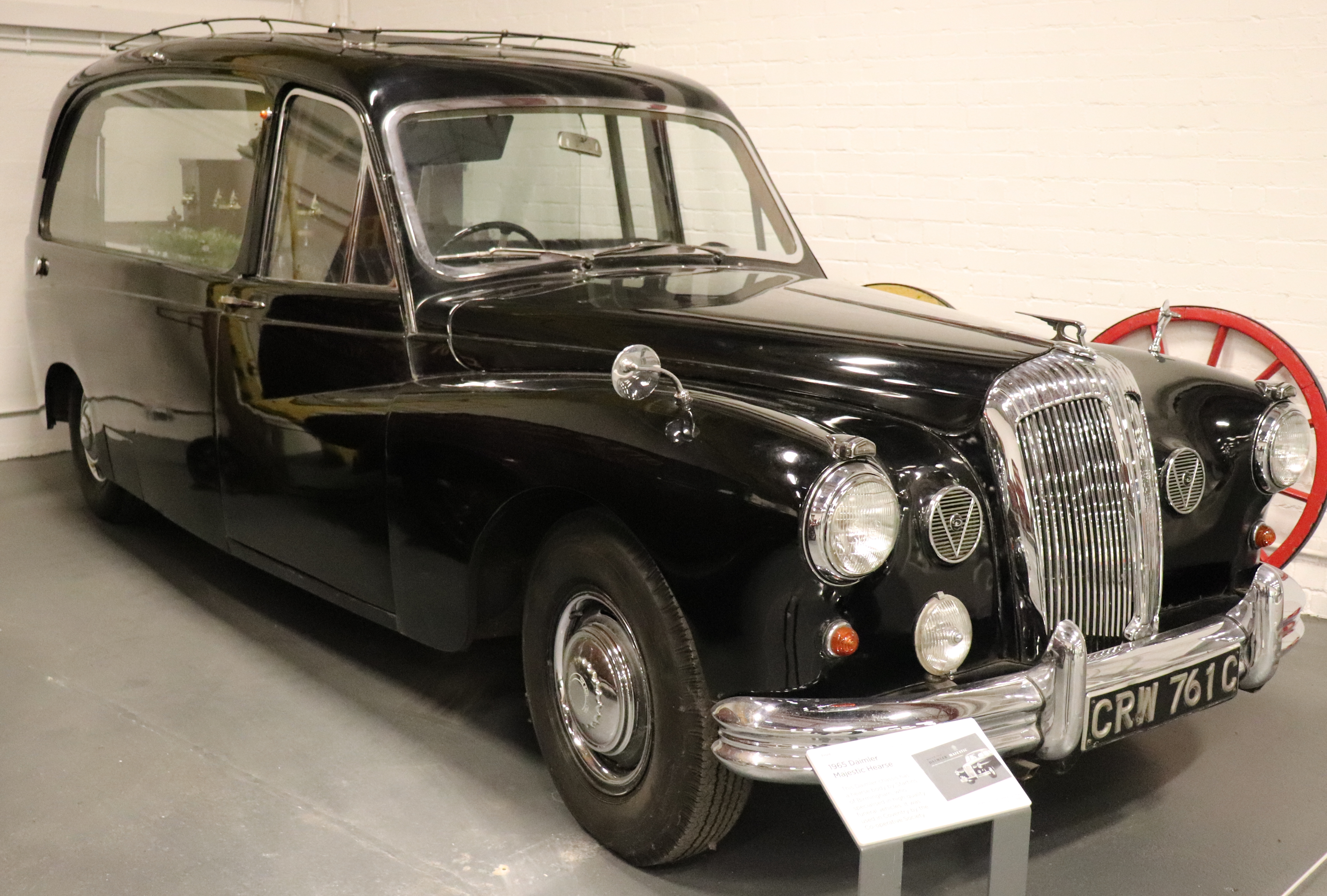 1965 Daimler Majestic Major Hearse Taken in the Coventry Transport Museum